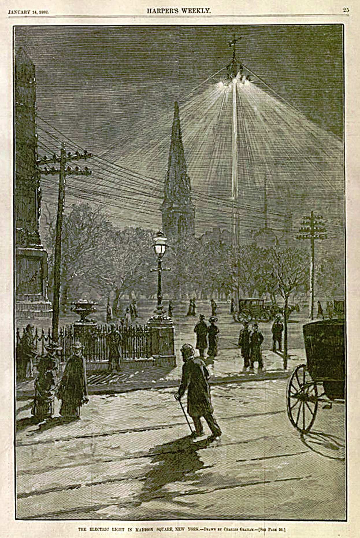 A Brush Electric Company arc street light in an illustration by Charles Graham in the January 14, 1882 issue of Harper’s Weekly depicting "The Electric Light in Madison Square, New York". Street arc lighting was demonstrated at the Paris Exposition of 1878 and within a decade scores of cities would have arc lighting systems that were supplanting street gas lighting gaslight systems of the period. In the US the Brush Electric Company set up a central station in December 1880 to supply a 2-mile (3.2 km) length of Broadway in New York City with arc lighting.